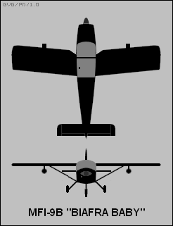 MFI-9B "Biafra Baby"